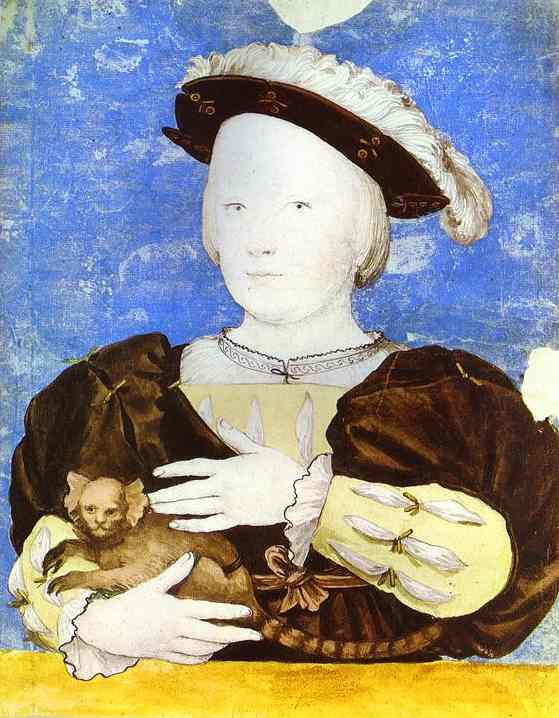 Henry Brandon, Earl of Lincoln, son of Princess Mary Tudor, Nephew of Henry VIII For many years, it was believed that this picture of Henry VIII's nephew, Henry Brandon, Earl, of Lincoln, was Prince Edward, Henry VIII's son by Jane Seymour. Recent scholarship has shown it to be young Brandon, who later died at about age 11.